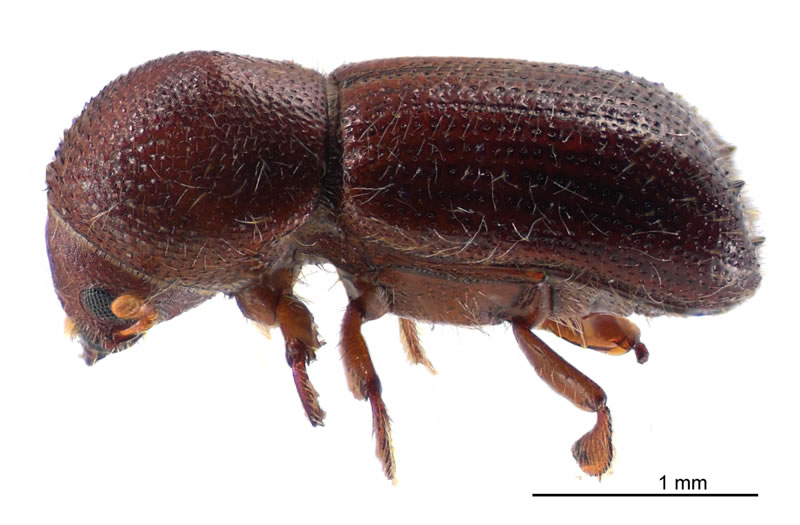 Lateral view of a specimen of Ambrosiodmus compressus photographed by Landcare Research New Zealand Ltd.